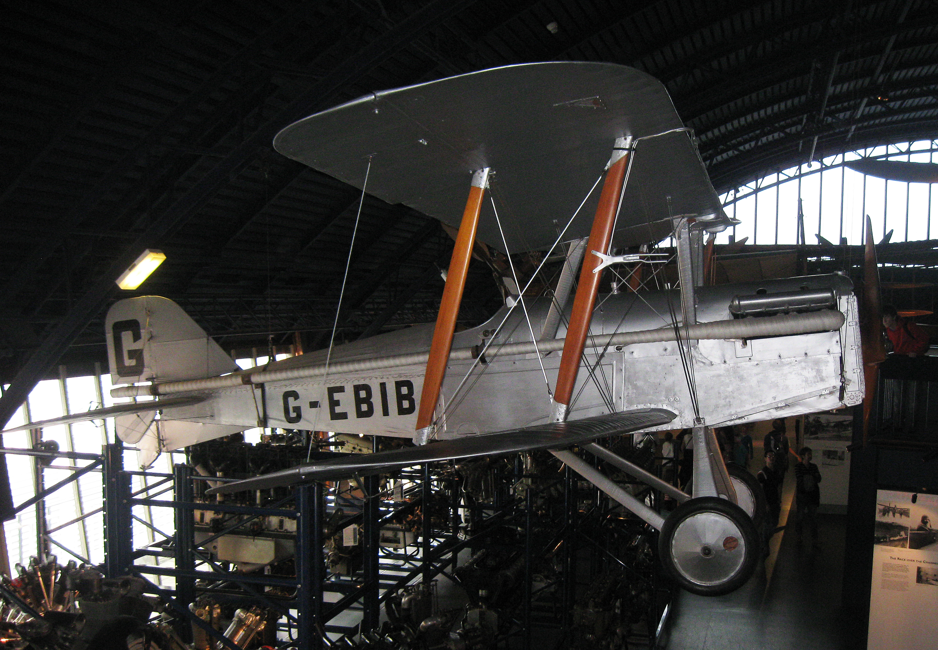 Displayed in the dismal 'Flight' hall. Ex RFC F937. Restored to original skywriting condition. msn 687 / 2404